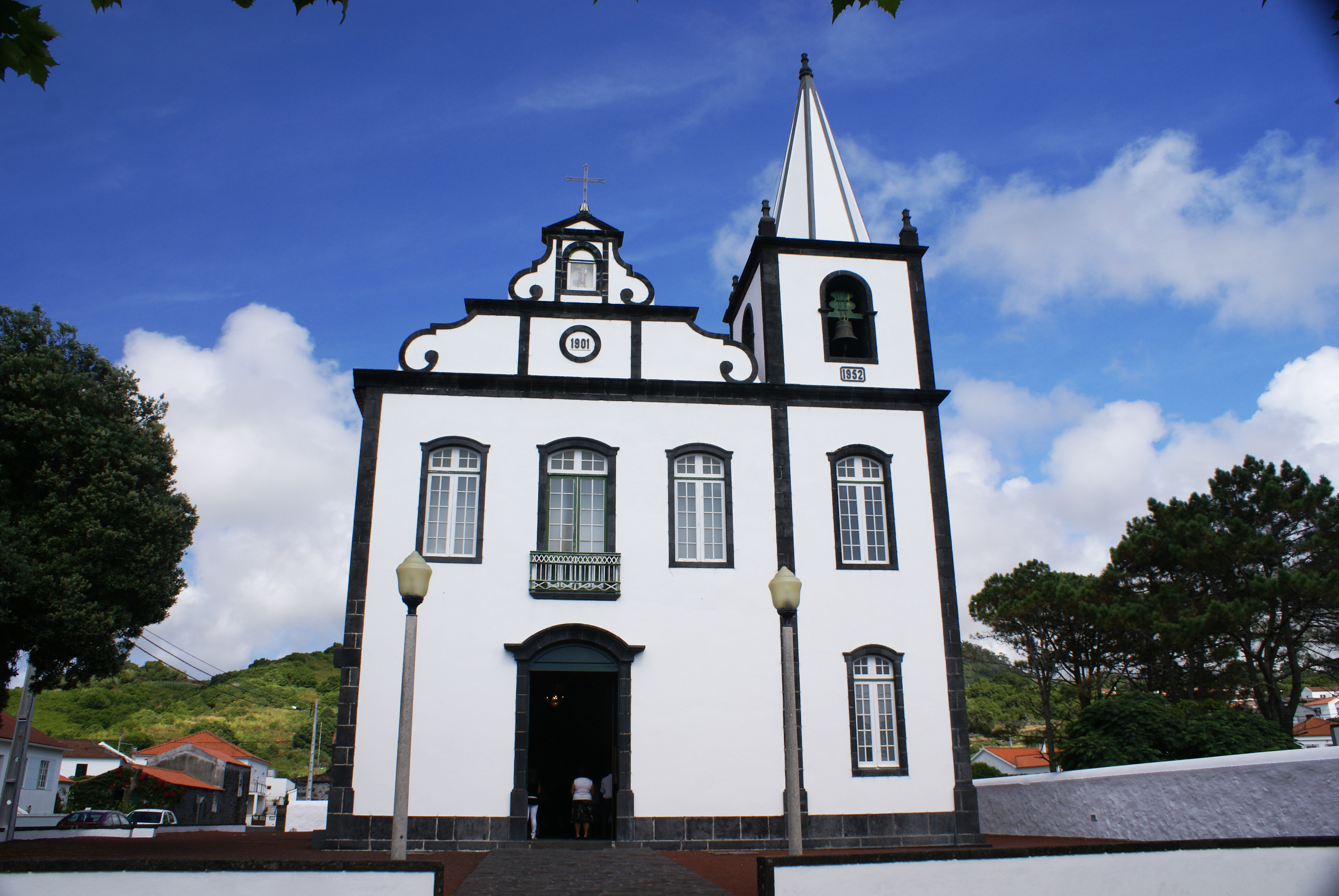 Front façade of the Chapel of Santo António do Monte, Candelária, Madalena do Pico, Pico (Azores), Portugal